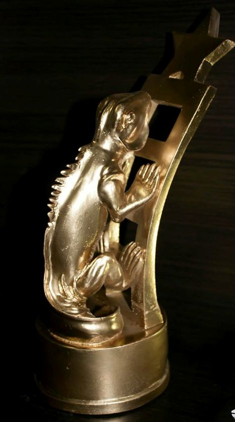 The official trophy of the International Film Festival of Guayaquil in its 2016 design, which remains to this day.